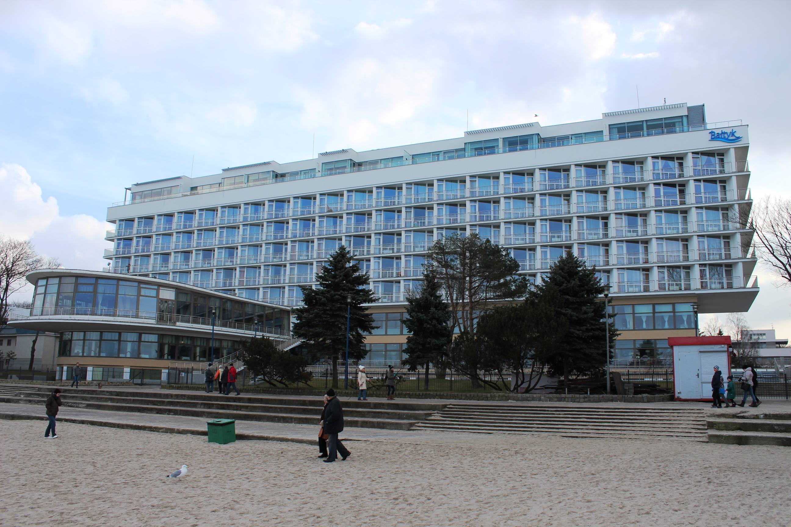 Bałtyk Sanatorium in Kołobrzeg